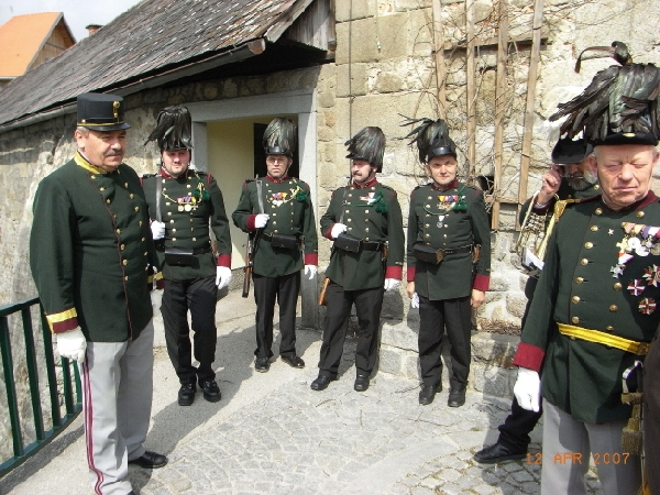 Civil Guards Freistadt